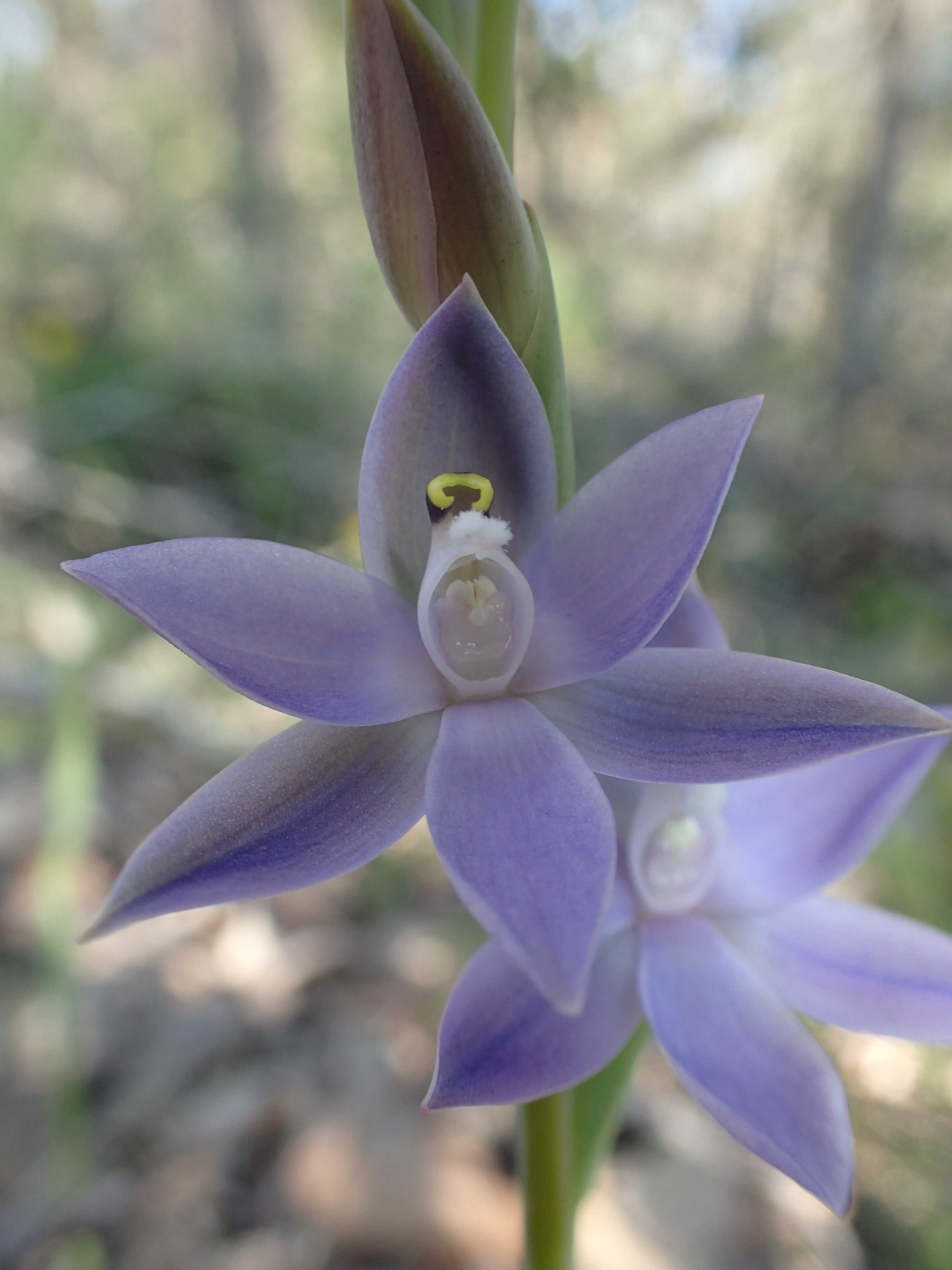 Thelymitra macrophylla growing near the South Western Highway near Boyanup